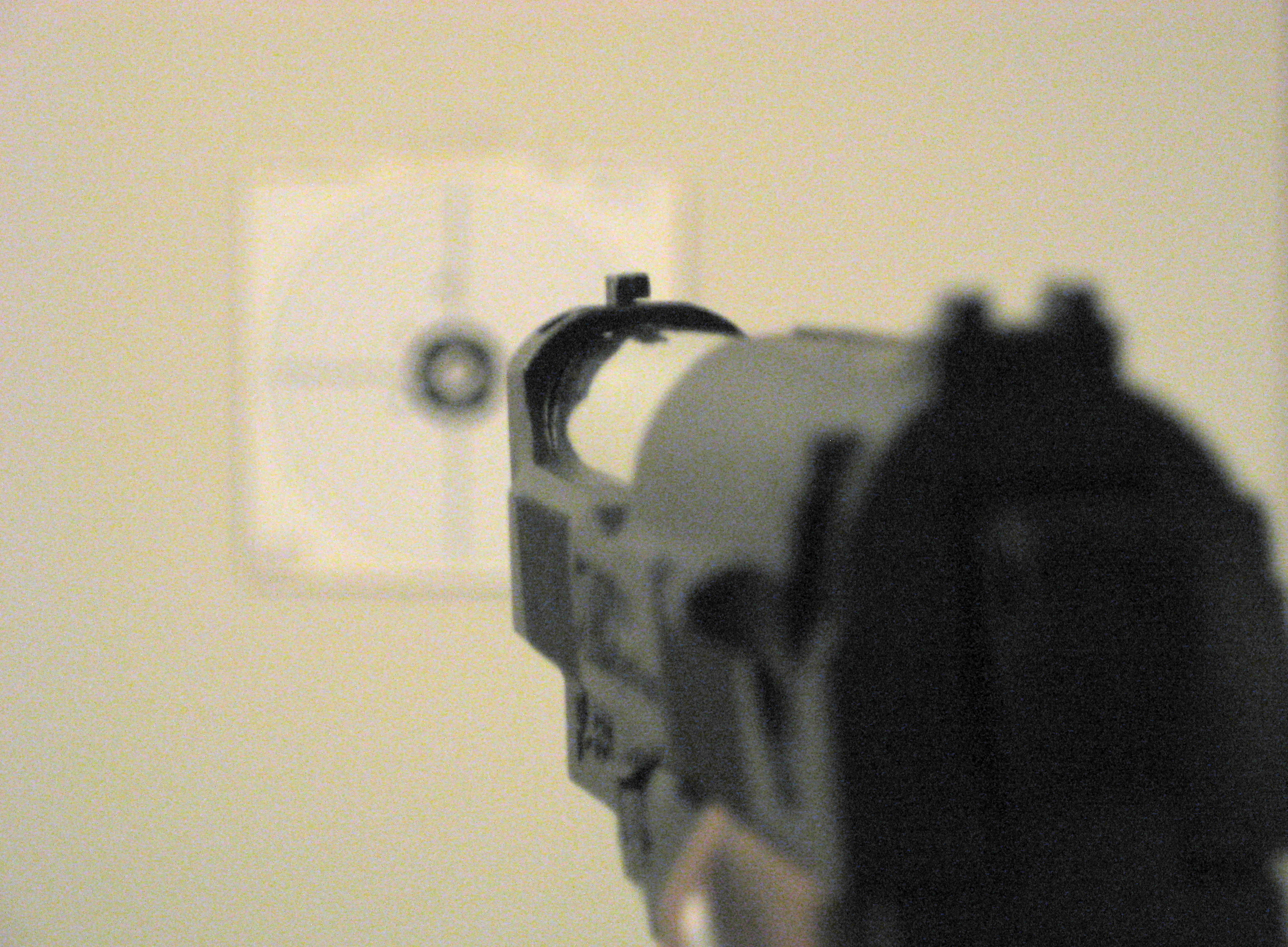 aiming at a target